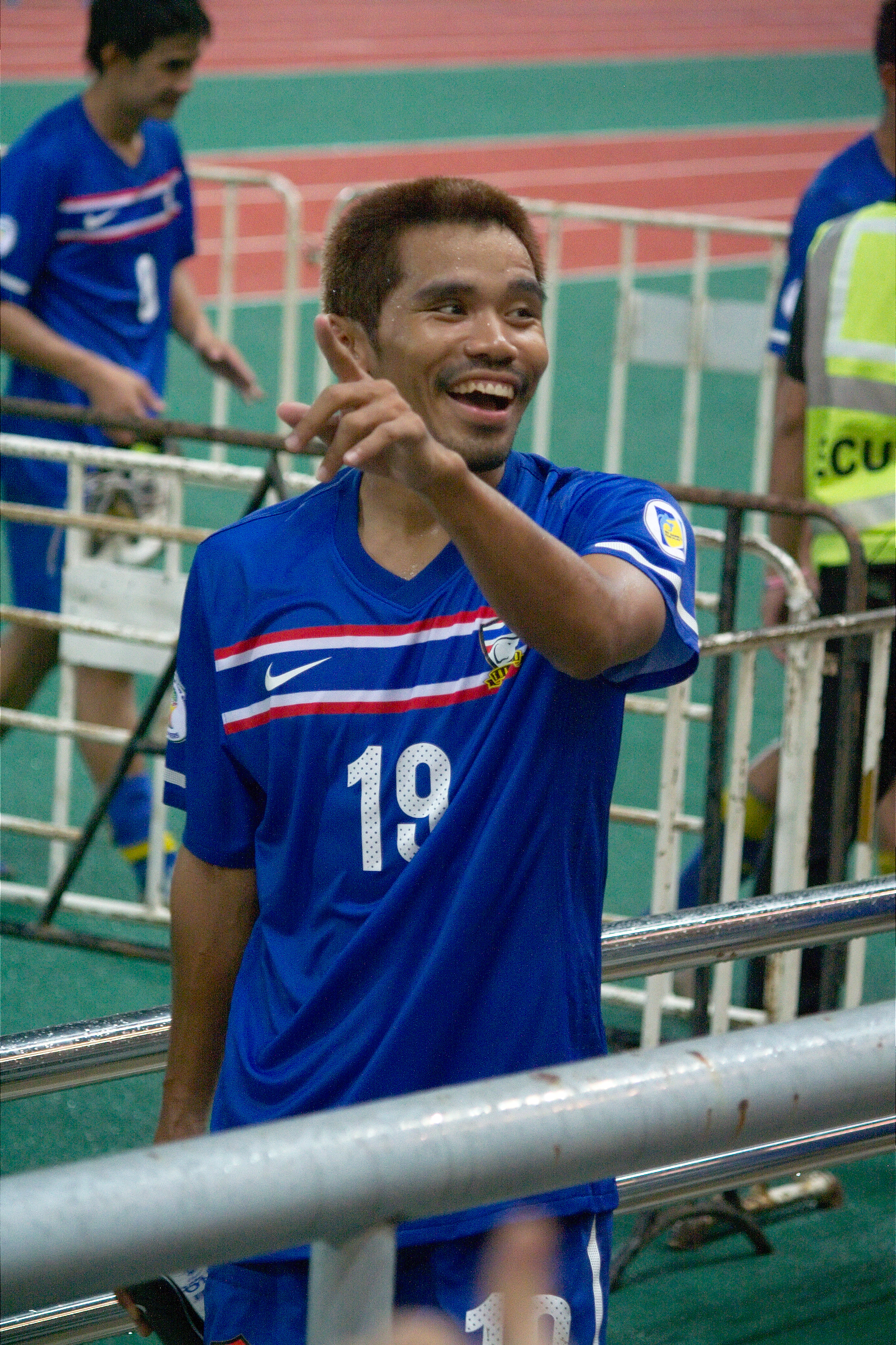 Thailand's Suree Sukha after the World Cup 2014 third round qualifying match against Oman at Rajamangala Stadium